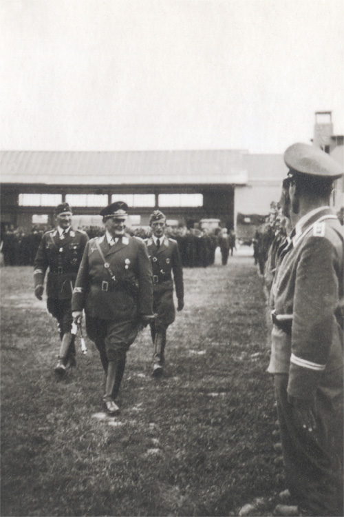 Hermann Göring in Krosno